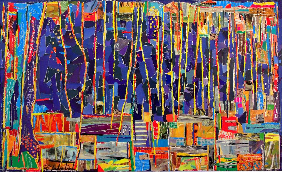 THE PLACE I REMEMBER - mixed media, collage. 2015